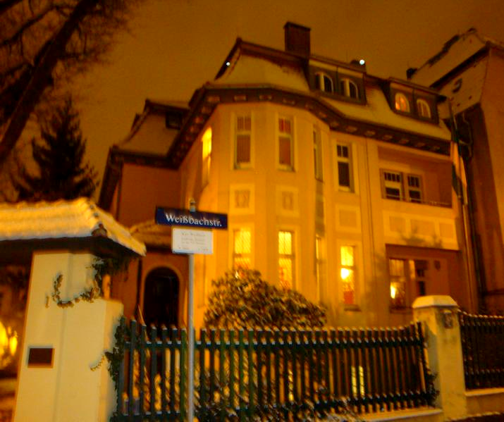 Fraternity House photographed during a snowy night in Dresden ("Corpshaus" of Corps Altsachsen Dresden).